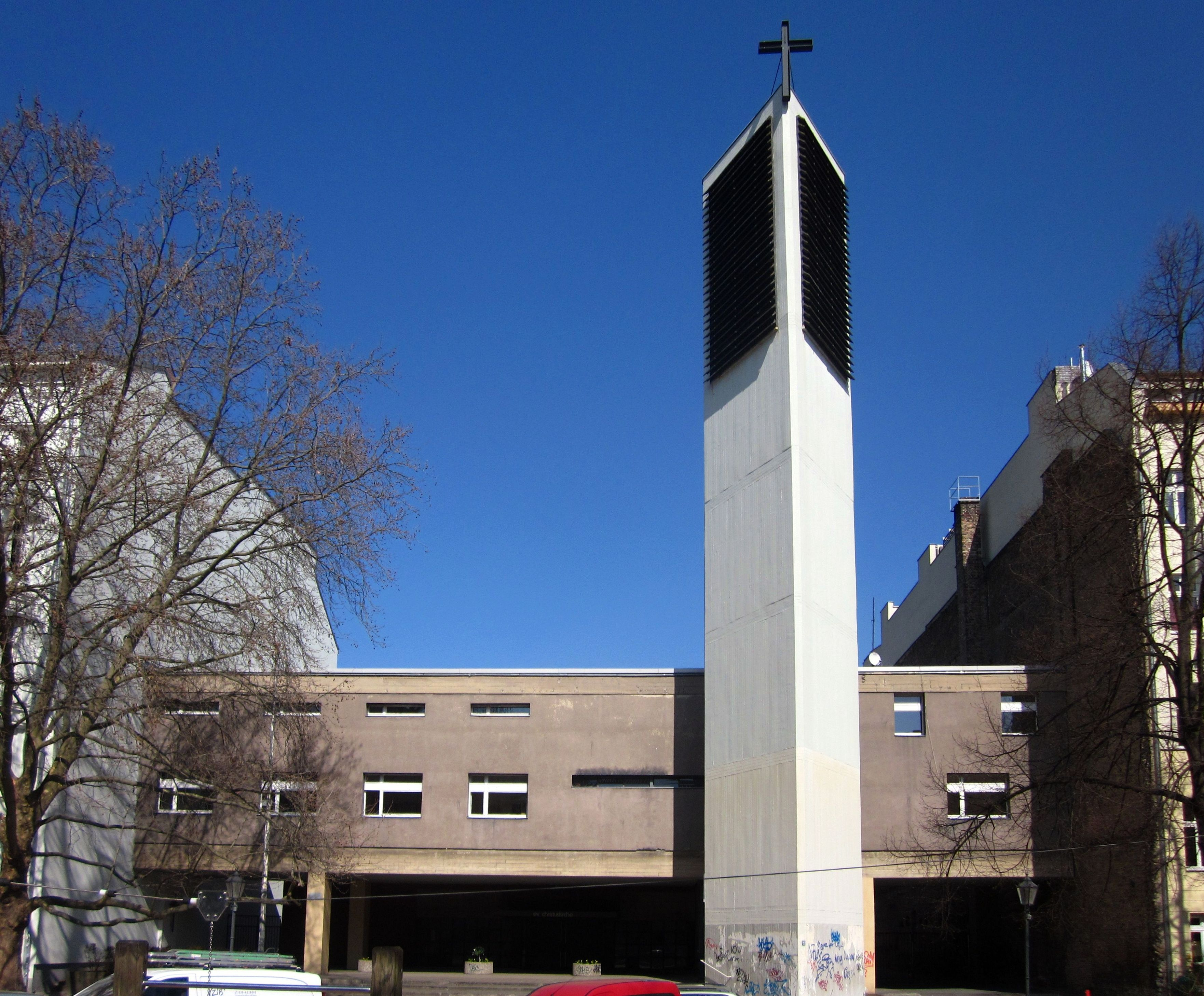 The Lutheran Christ Church at Horbnstraße No. 7-8 in Berlin-Kreuzberg. The complex consists of three parts: the bell tower in front, a rectangular part with an apartment as well as housing the social institutions of the congregation, and the church room proper behind with a triangular layout. The complex was built in 1962 to a design by Klaus H. Ernst.